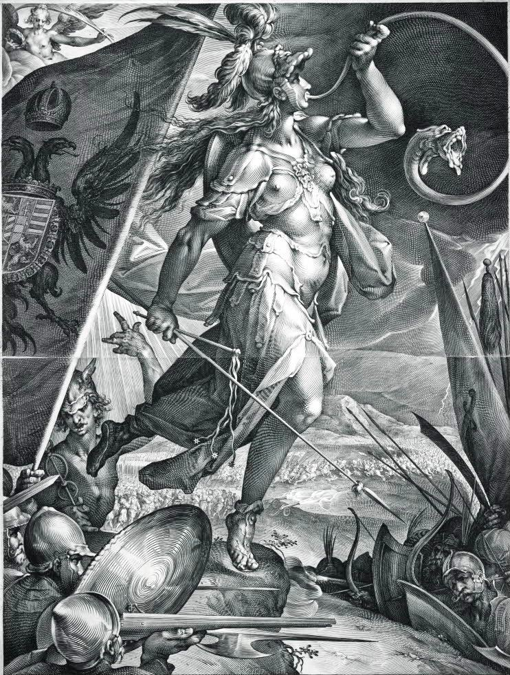 "Bellona Leading the Imperial Armies against the Turks" a print by Jan Harmensz Muller fom an original by Batholomaeus Spranger, 1600. A print in the British Museum.